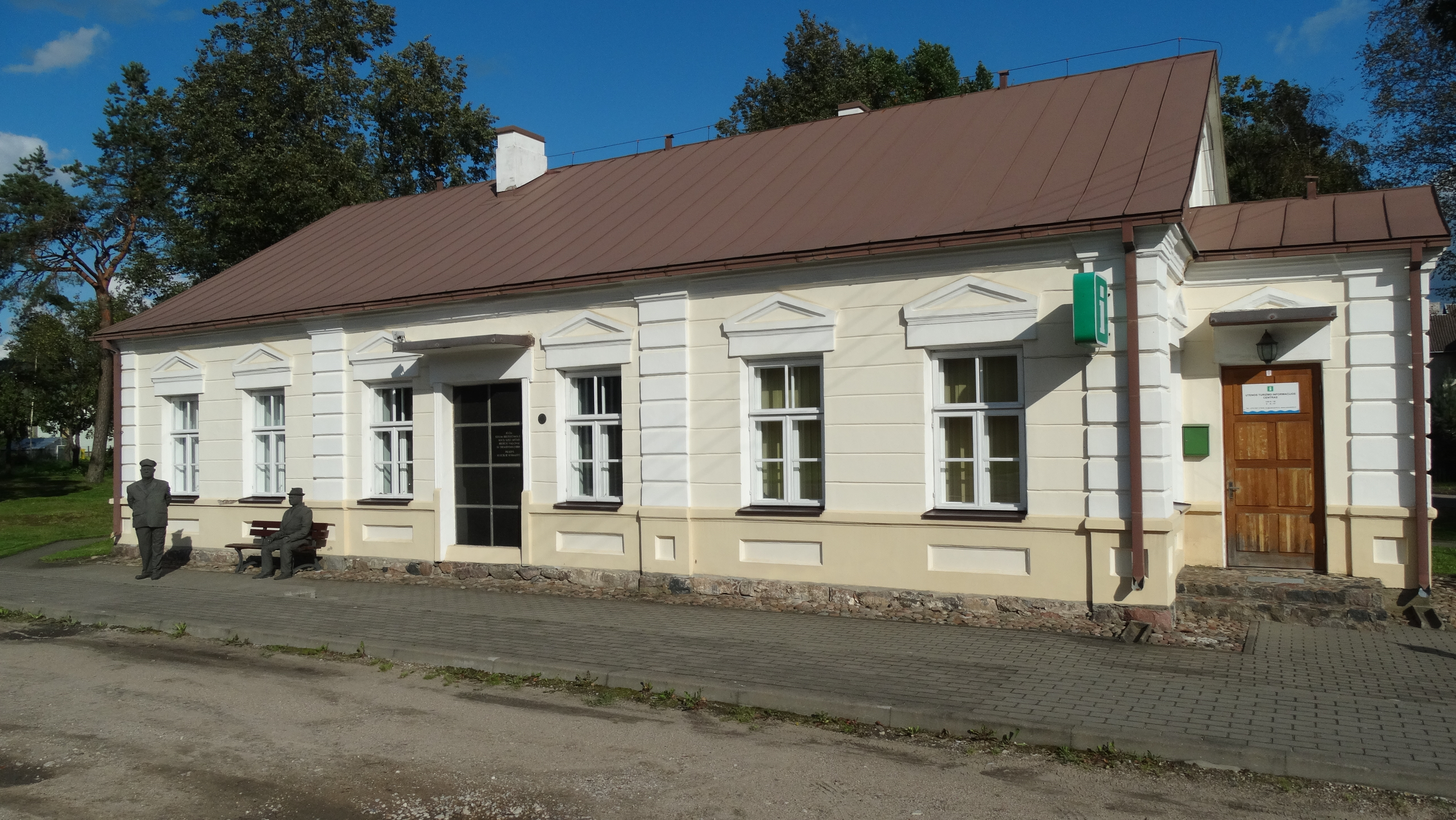 Former railway station, Utena, Lithuania